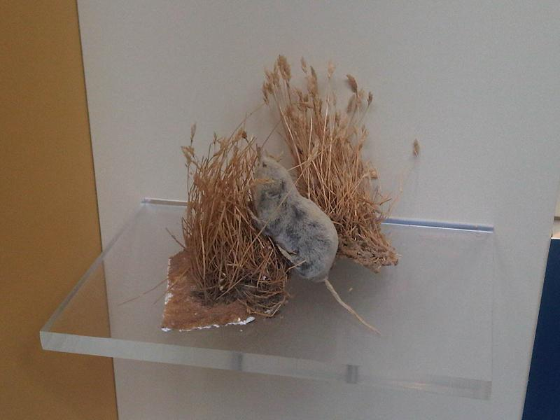 Taxidermied Common Shrew or Eurasian Shrew (Sorex araneus) at the Natural History Museum in London, England.